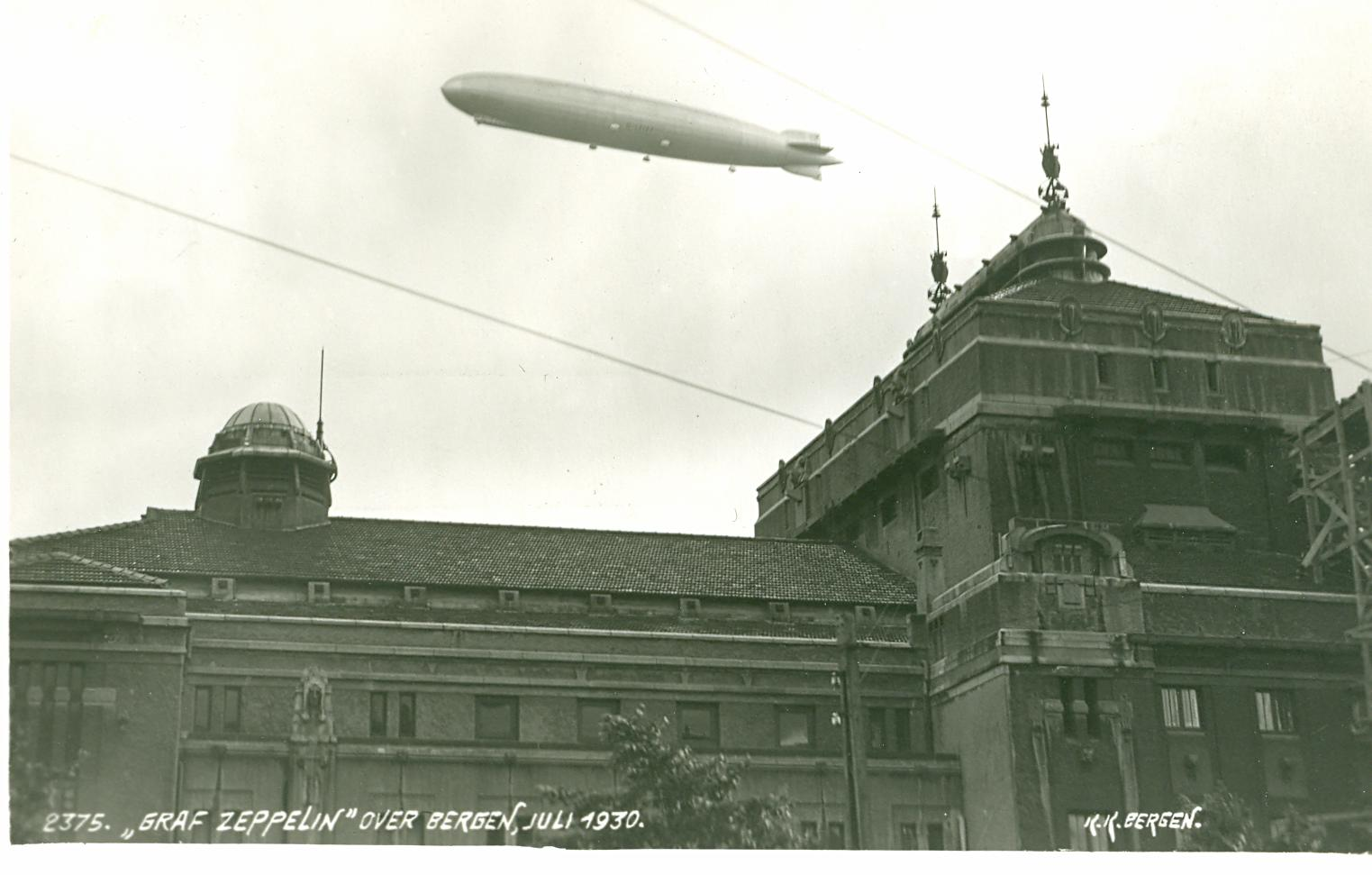 The German airship LZ 127 Graf Zeppelin over Bergen, Norway, in 1930 (postcard). Notes: More of Knudsen´s work available at: [1], the picture collection at the University of Bergen (in Norwegian only) [2] [3], [4] Original belongs to the Local Collection at Bergen Public Library